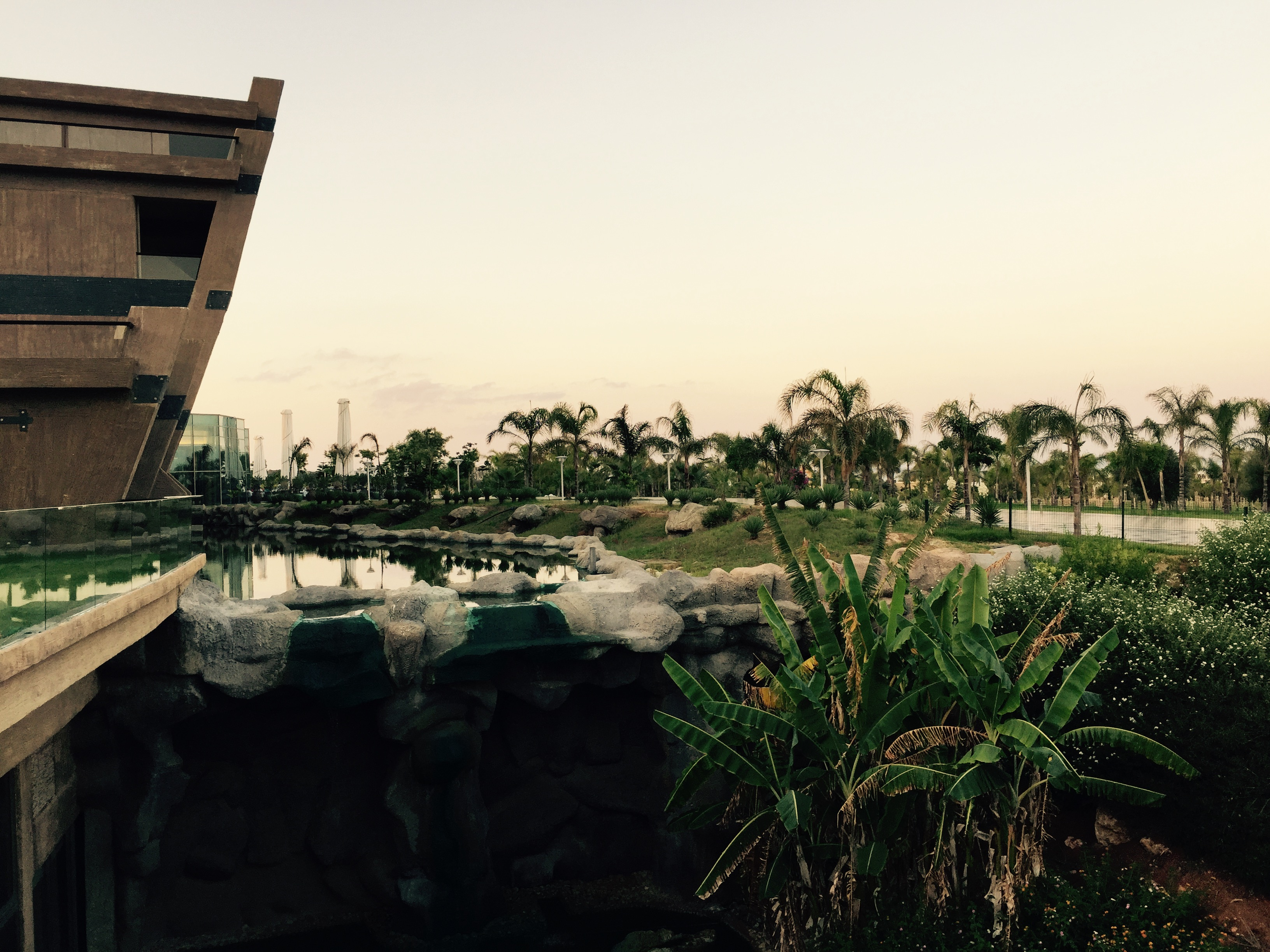 A view from the green garden of the Noah's Ark Hotel, Bafra, Northern Cyprus